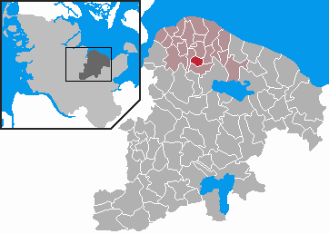 This map shows the area of the Gemeinde (municipality) Fahren in the Kreis (district) Plön, Schleswig-Holstein, Germany.